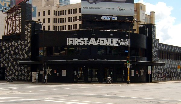 First Avenue nightclub in Minneapolis, Minnesota. Photo taken on June 5, 2005 by User:Mulad. Hereby released into the public domain.